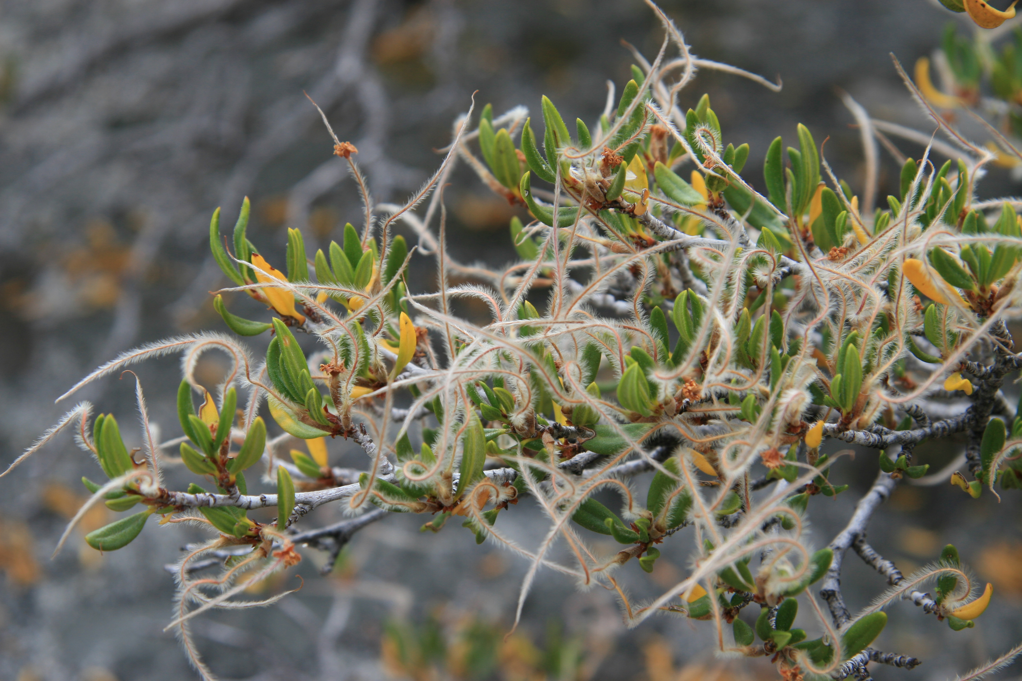 Curl-leaf mountain mahogany (Cercocarpus ledifolius) closeup of branch with typical, curly seedpods. Granite dome area of Emigrant Wilderness, Sierra Nevada, California.